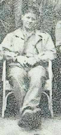 Anton Ukmar-Miro (1900-1978)